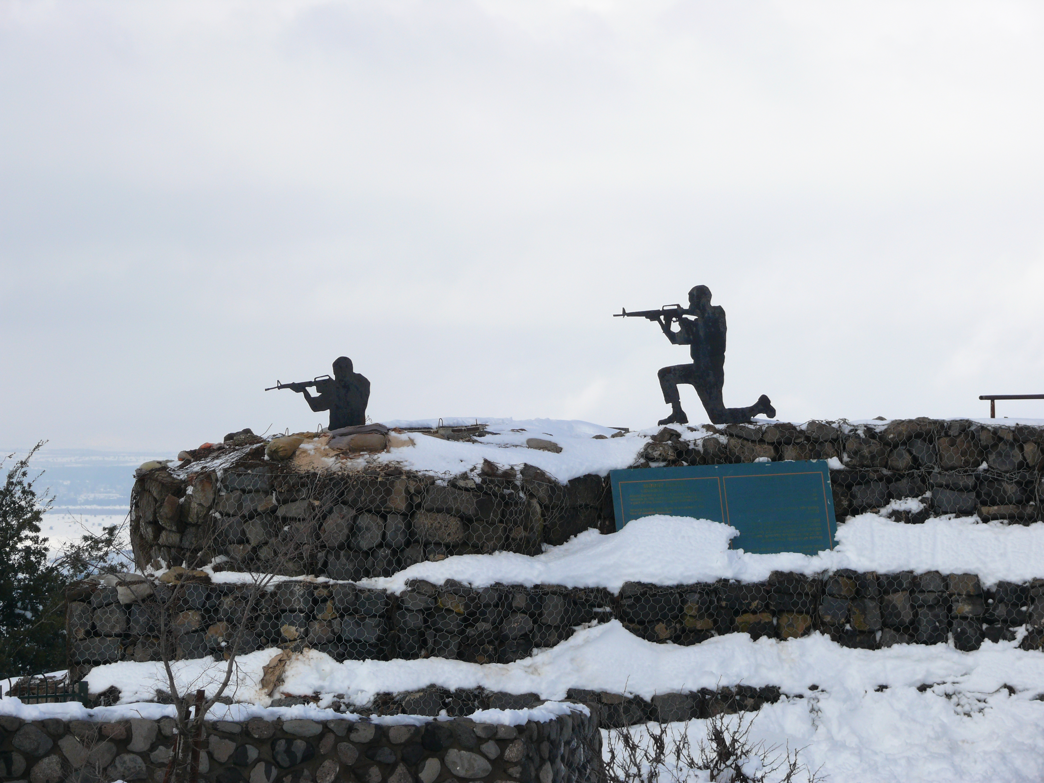 Mount Bental with IDF historic outpost, Golan Heights.